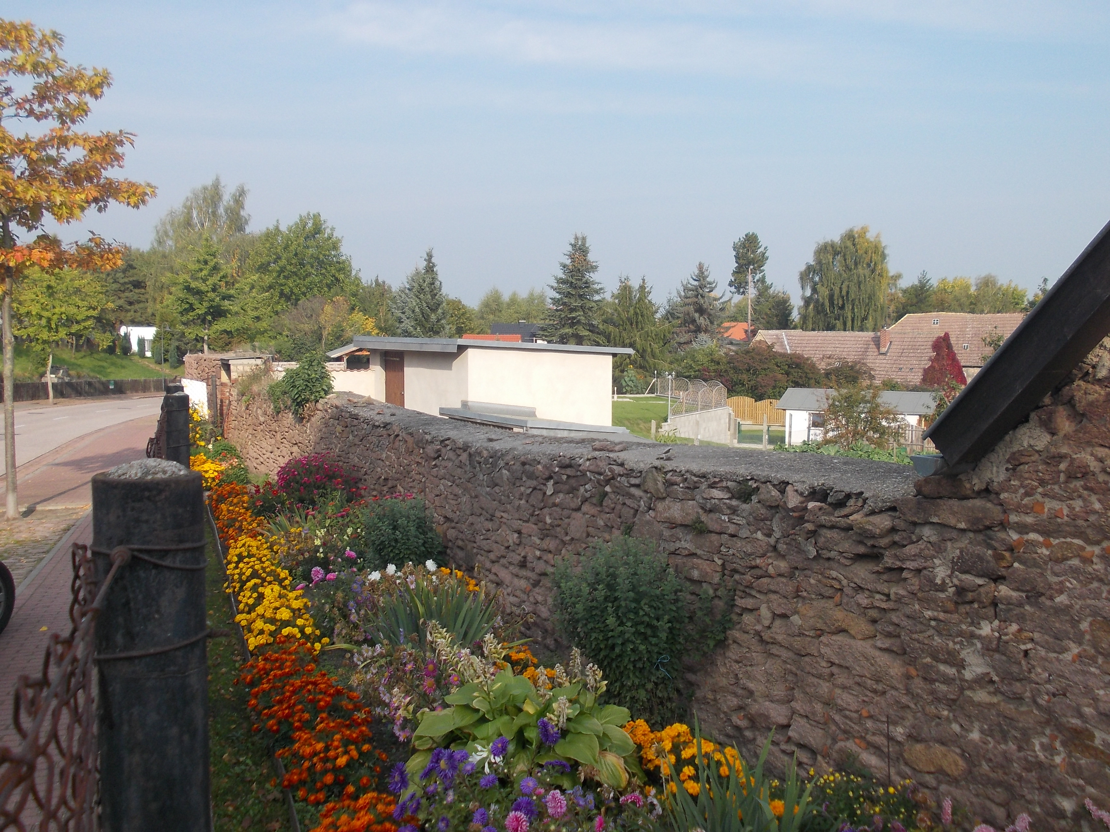 Town wall of Löbejün (Wettin-Löbejün, district: Saalekreis, Saxony-Anhalt)